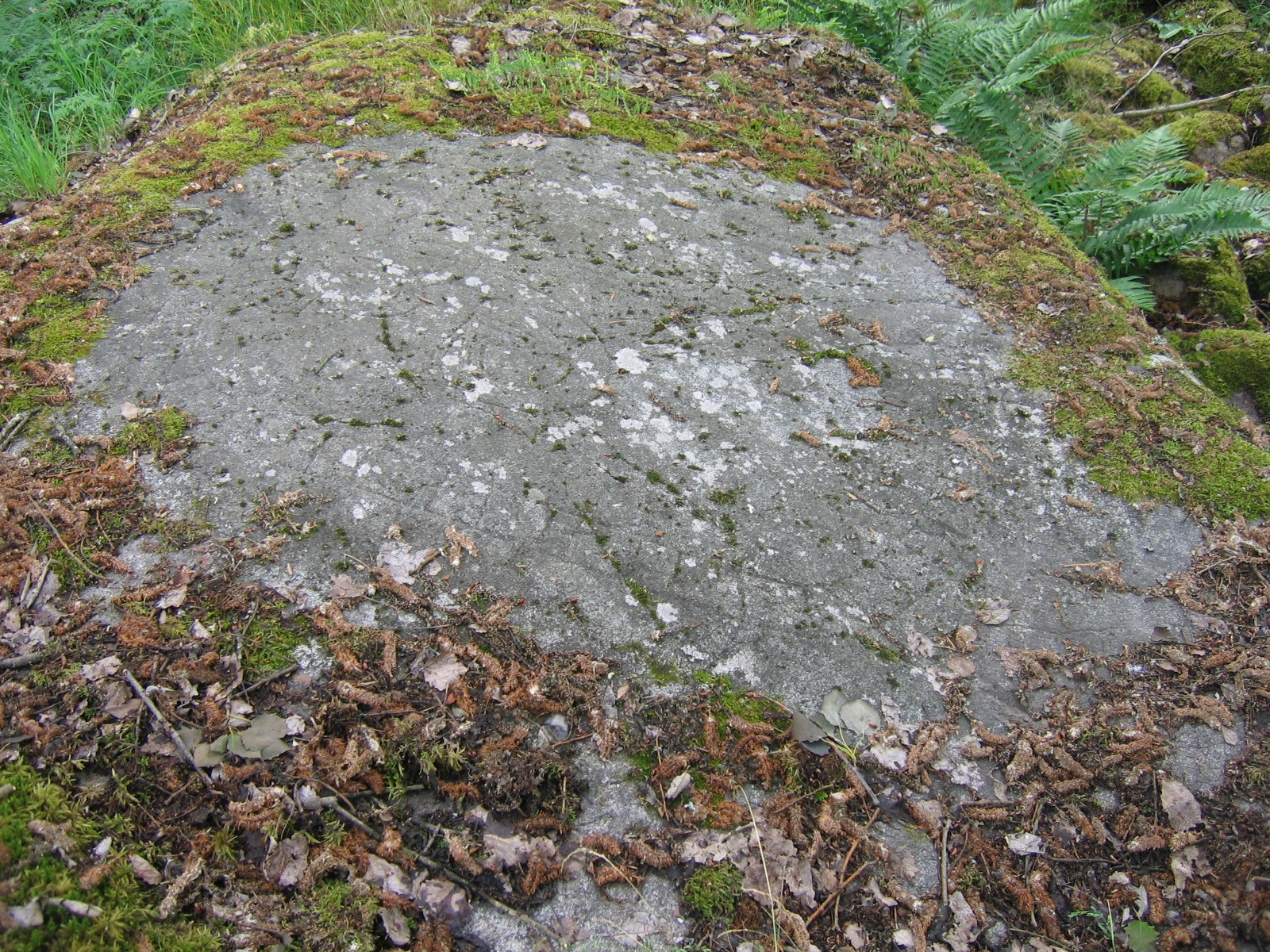 runic inscription near Stockholm